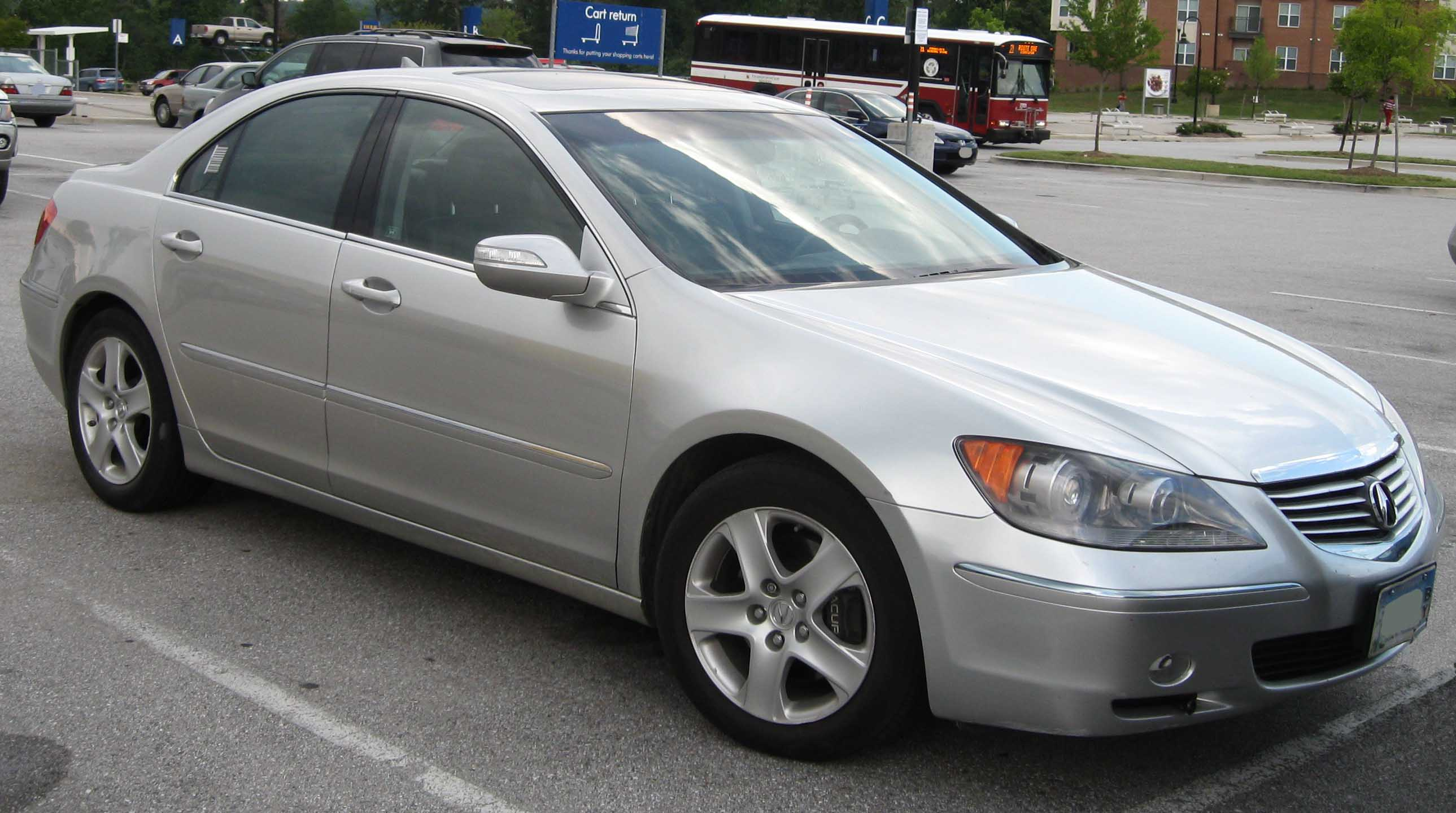 2005-2008 Acura RL photographed in College Park, Maryland, USA.